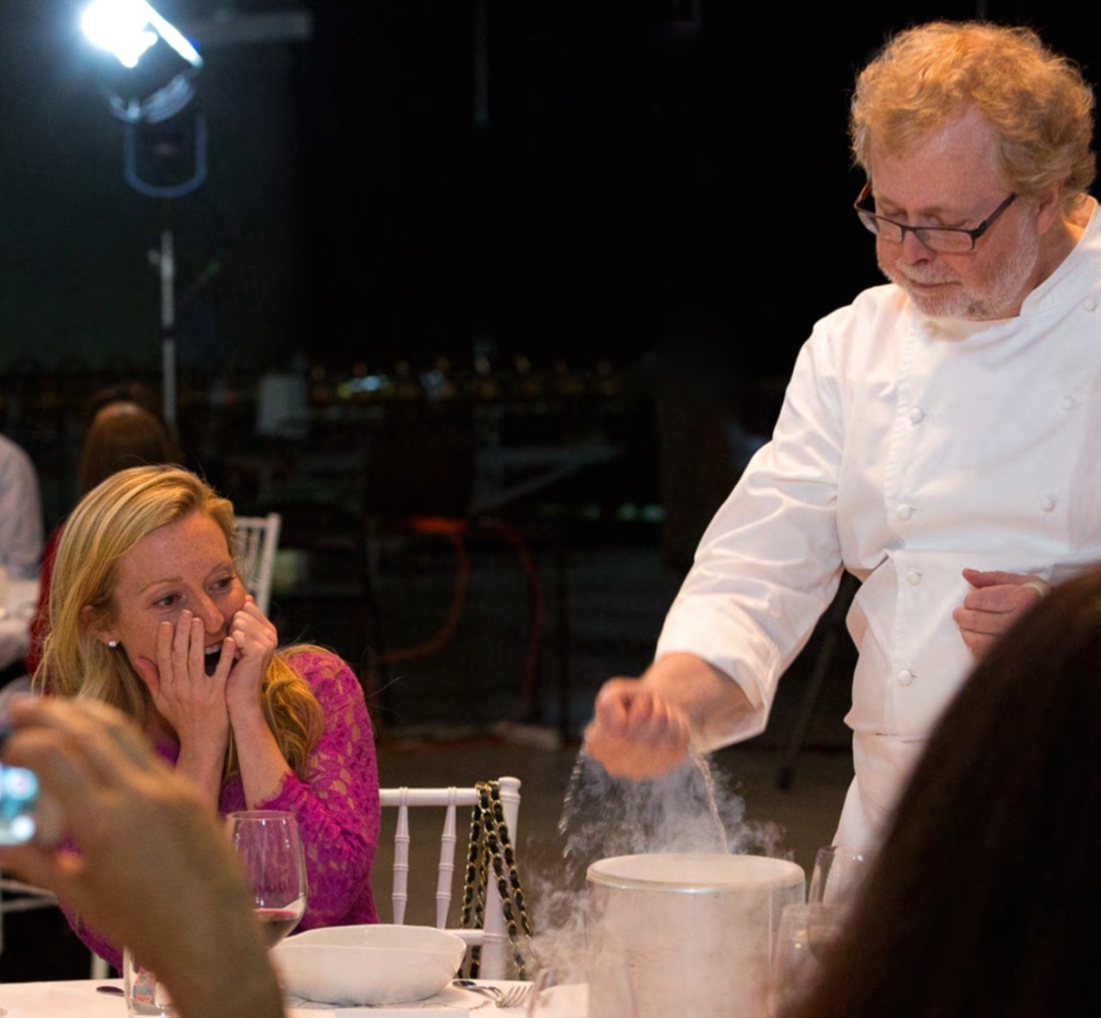 Modernist Cuisine dinner with Nathan Myhrvold